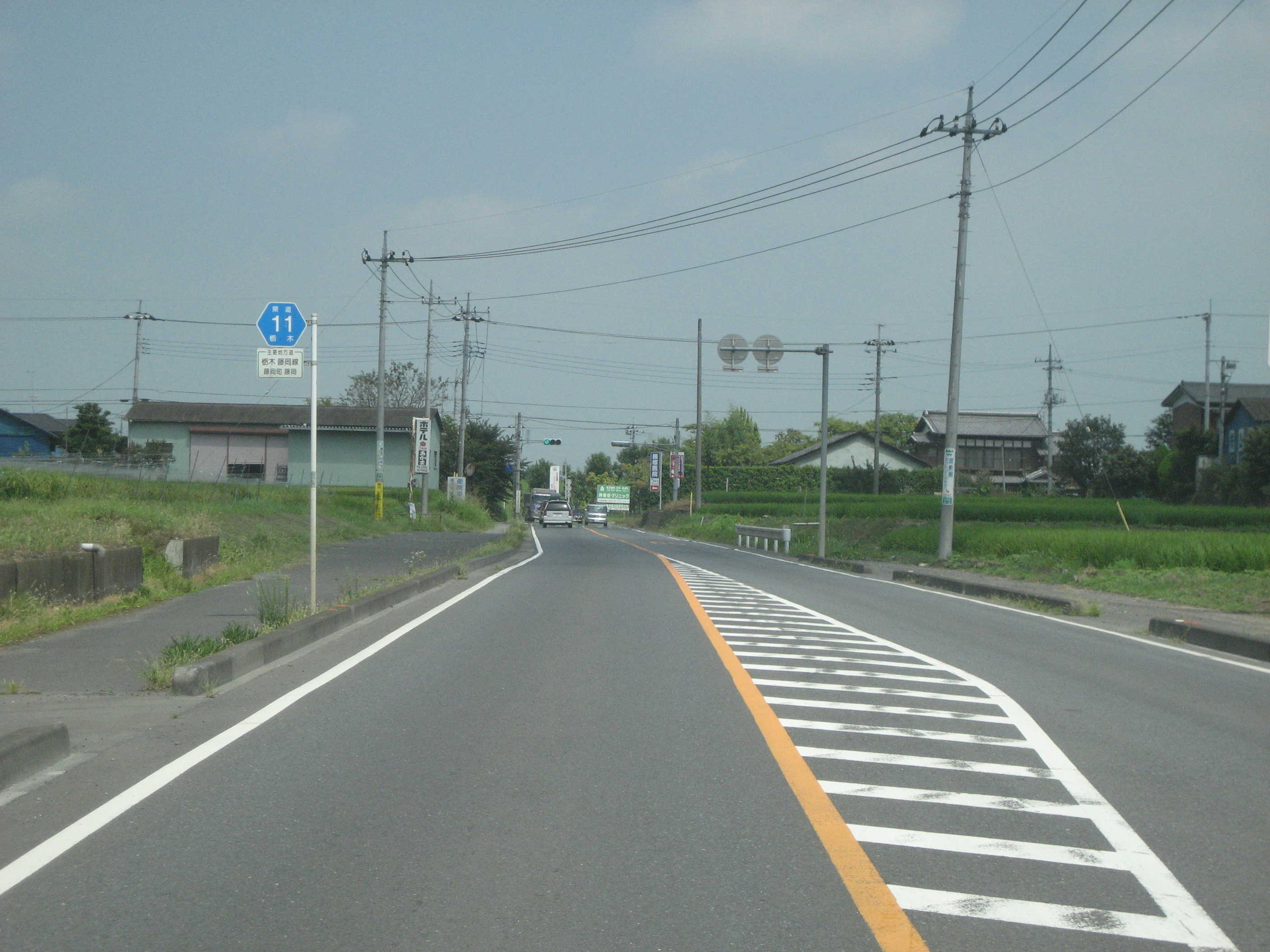 Tochigi prefectural road Route 11 in Fujioka Town